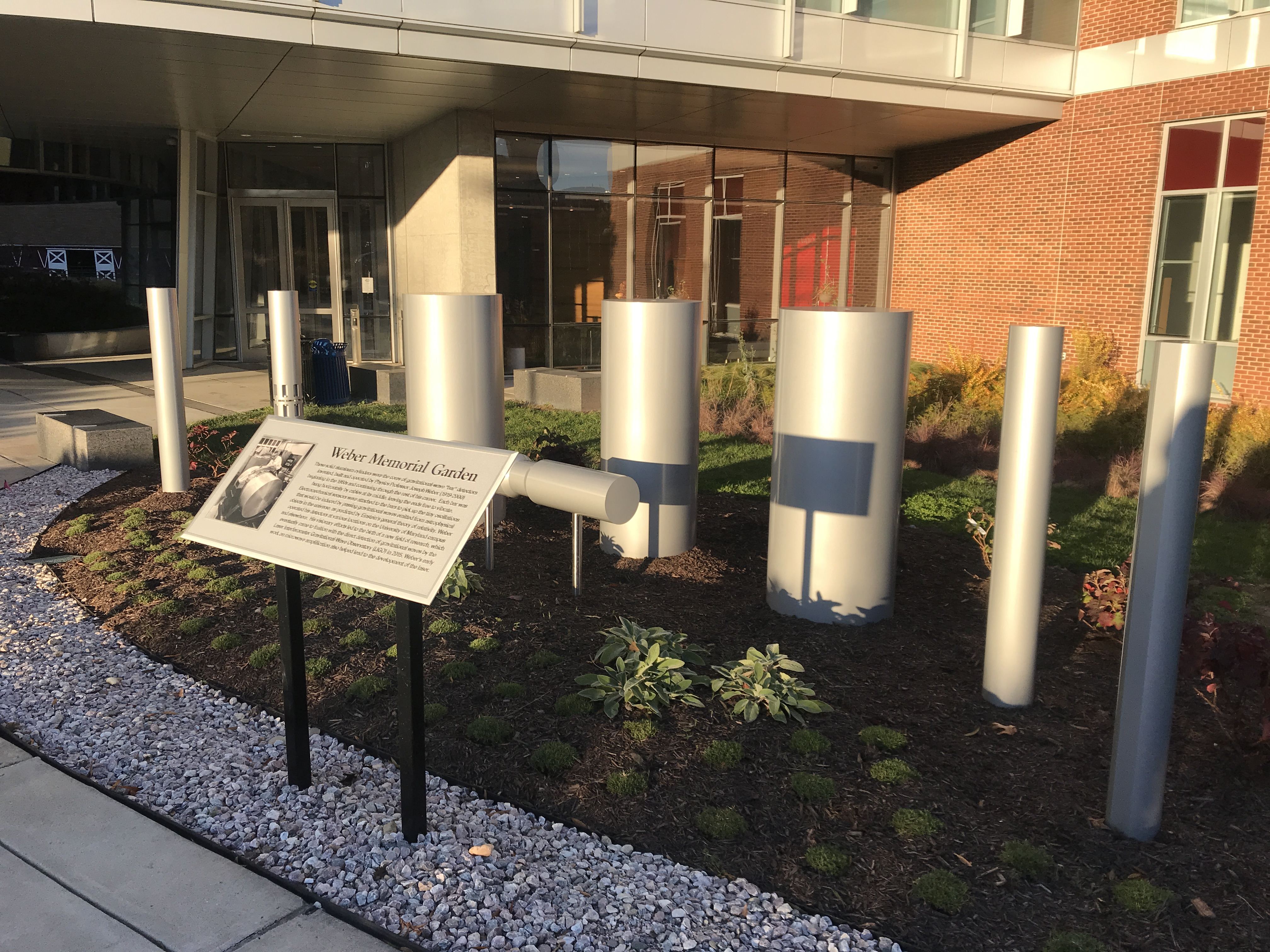 Eight large aluminum bars organized in an arch around a sign that says "Weber Memorial Garden" with a picture of Weber working on the detectors. The Garden can be found at the University of Maryland.